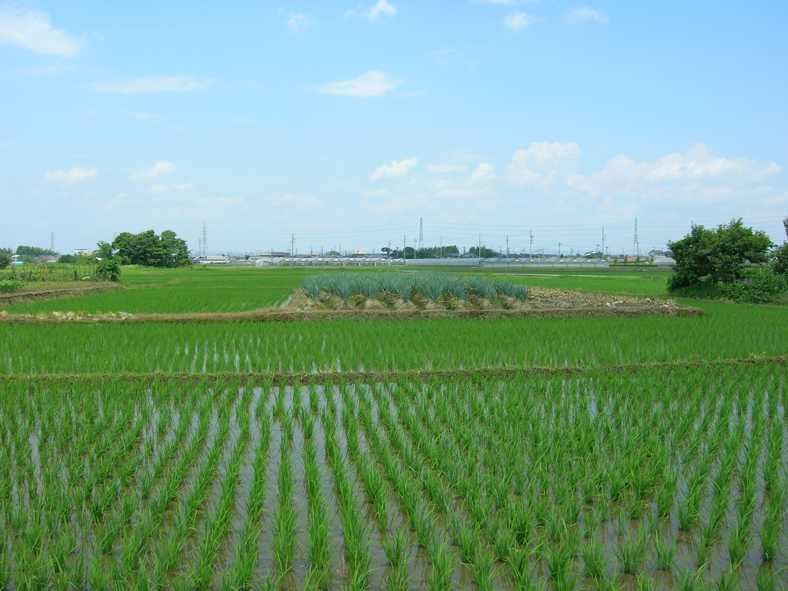 Shimabata (Traditional farming in Japan). Loc: Ichinomiya city, Aichi Prefecture, Japan. 島畑 撮影場所 愛知県一宮市